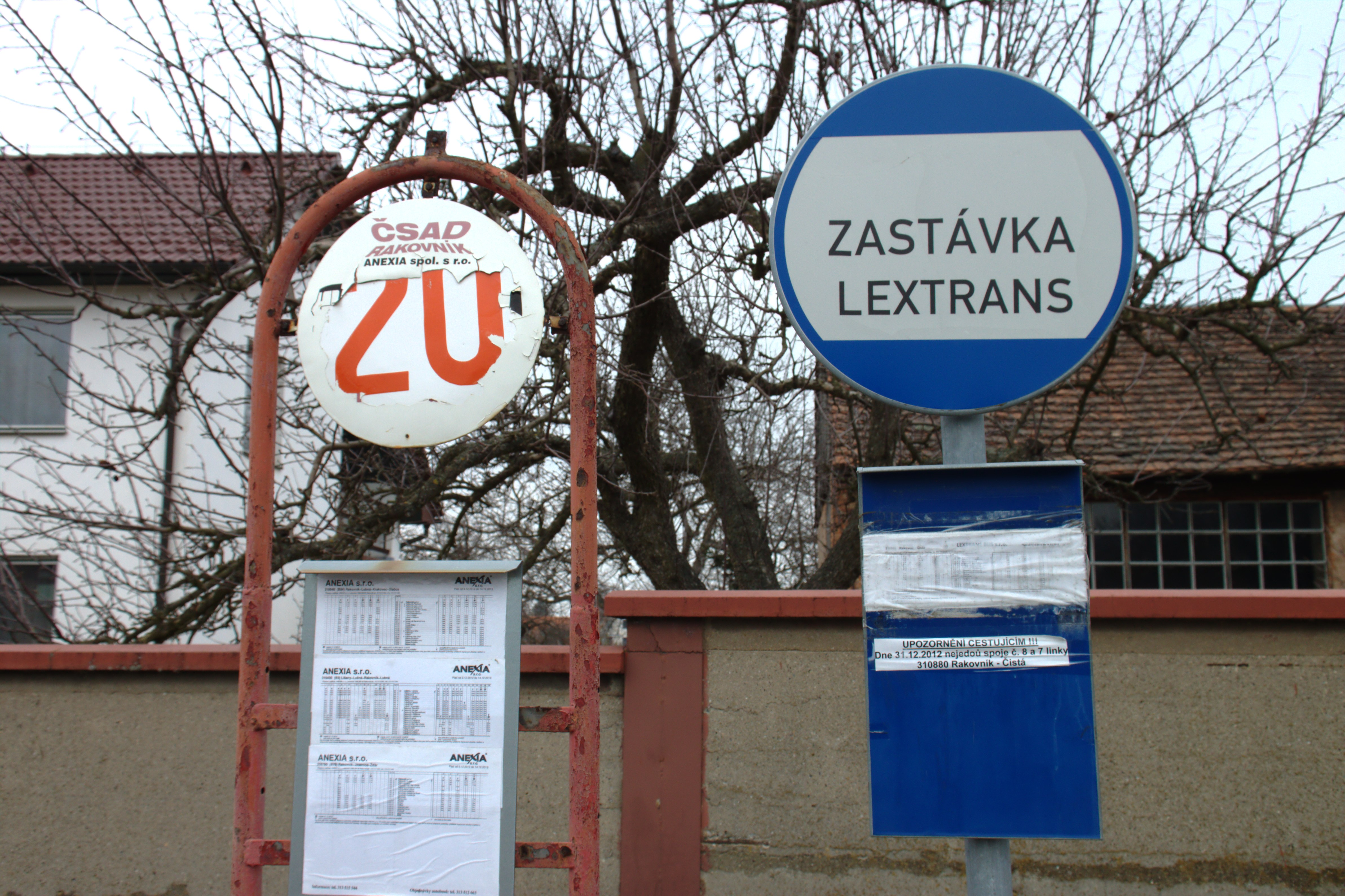 Bus stops in the central part of the town of Lubná, Central Bohemian Region, CZ